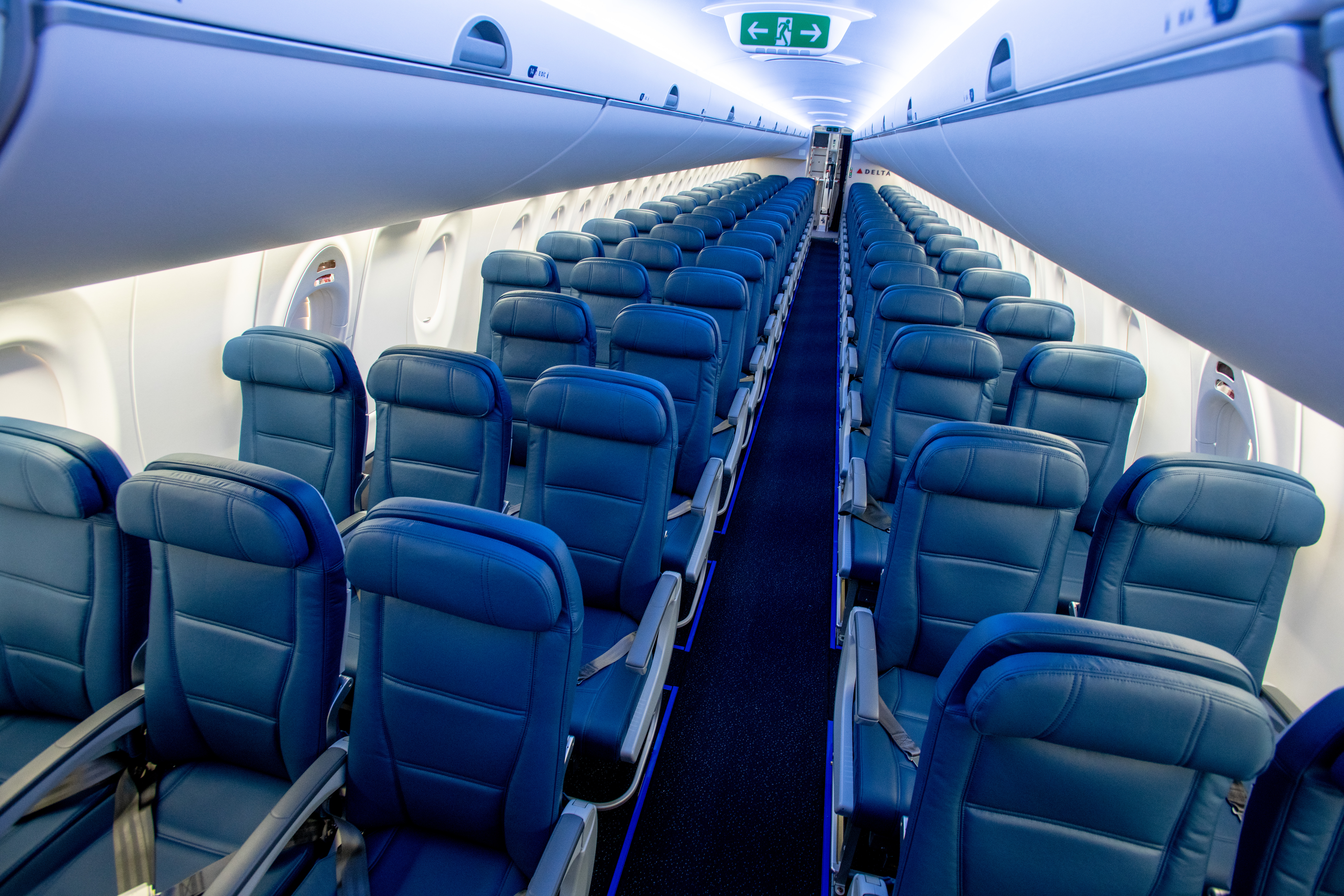 Details are shown on Delta Air Lines first A220 in Atlanta, Georgia at Hartsfield Jackson International airport on Sunday October 28,2018. (Chris Rank/Rank Studios 2018)